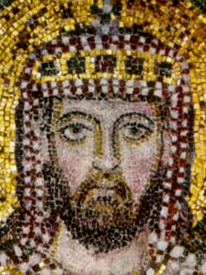 Alexander of Constantinople.